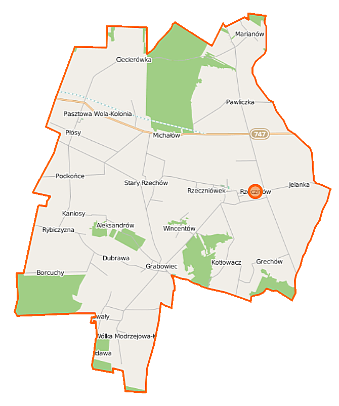 Map of Gmina Rzeczniów, Poland This map of Rzeczniów (gmina) was created from OpenStreetMap project data, collected by the community. This map may be incomplete, and may contain errors. Don't rely solely on it for navigation. Border coordinates51.191821.3039←↕→21.487951.0537